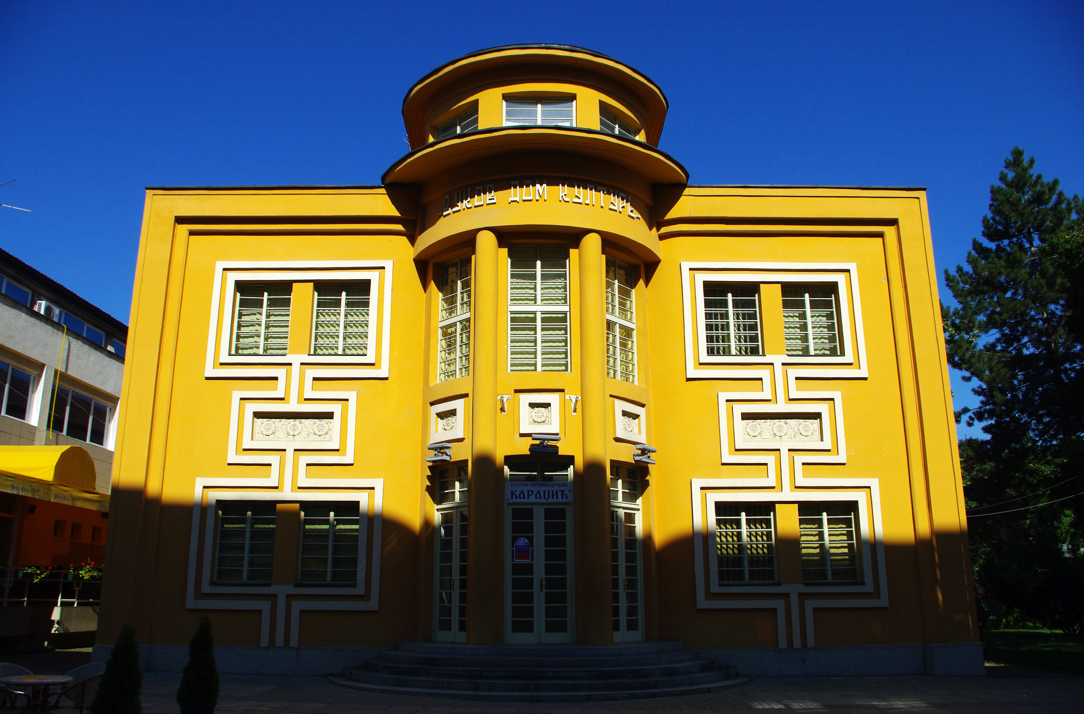 Vukov Dom Kulture U Loznica, Serbia.